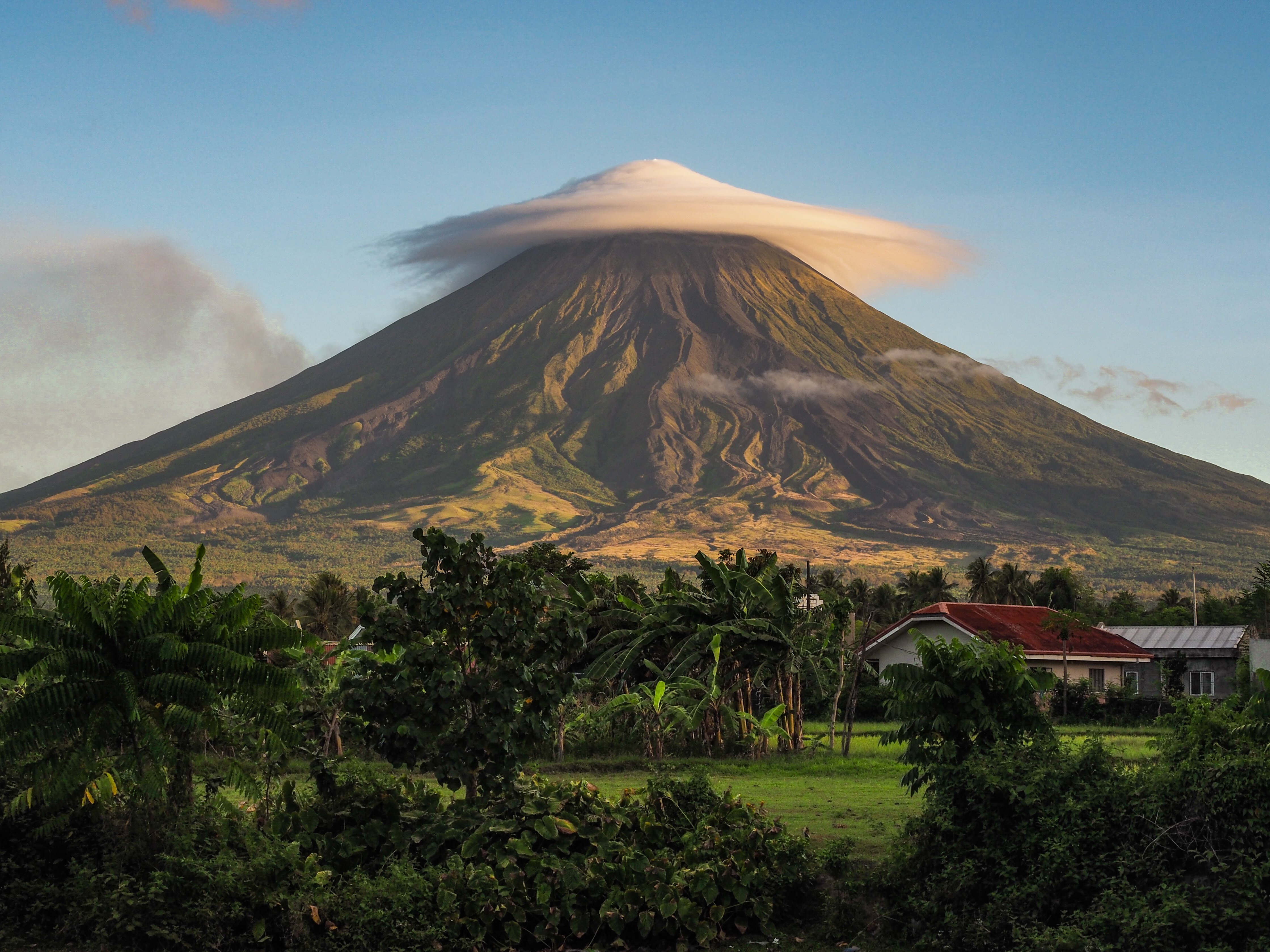 Mayon Volcano with cloudy hat